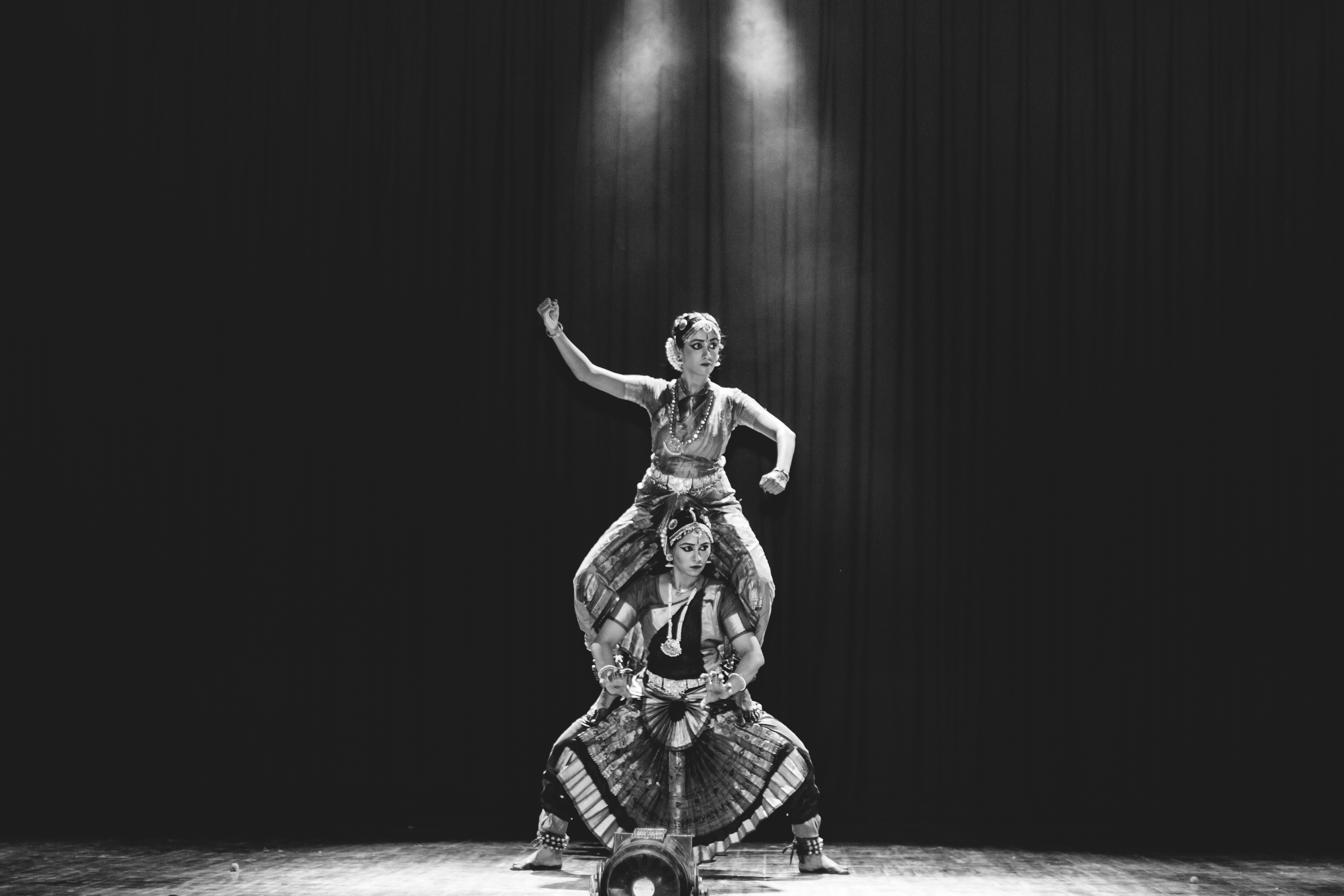 Bharatnatyam- Indian Classical Dance. Goddess Bhavani the ferocious aspect of Parvati. Bhavani means 'Giver of life' Also known as mahishasura mardhini- The slayer of mahishasura.